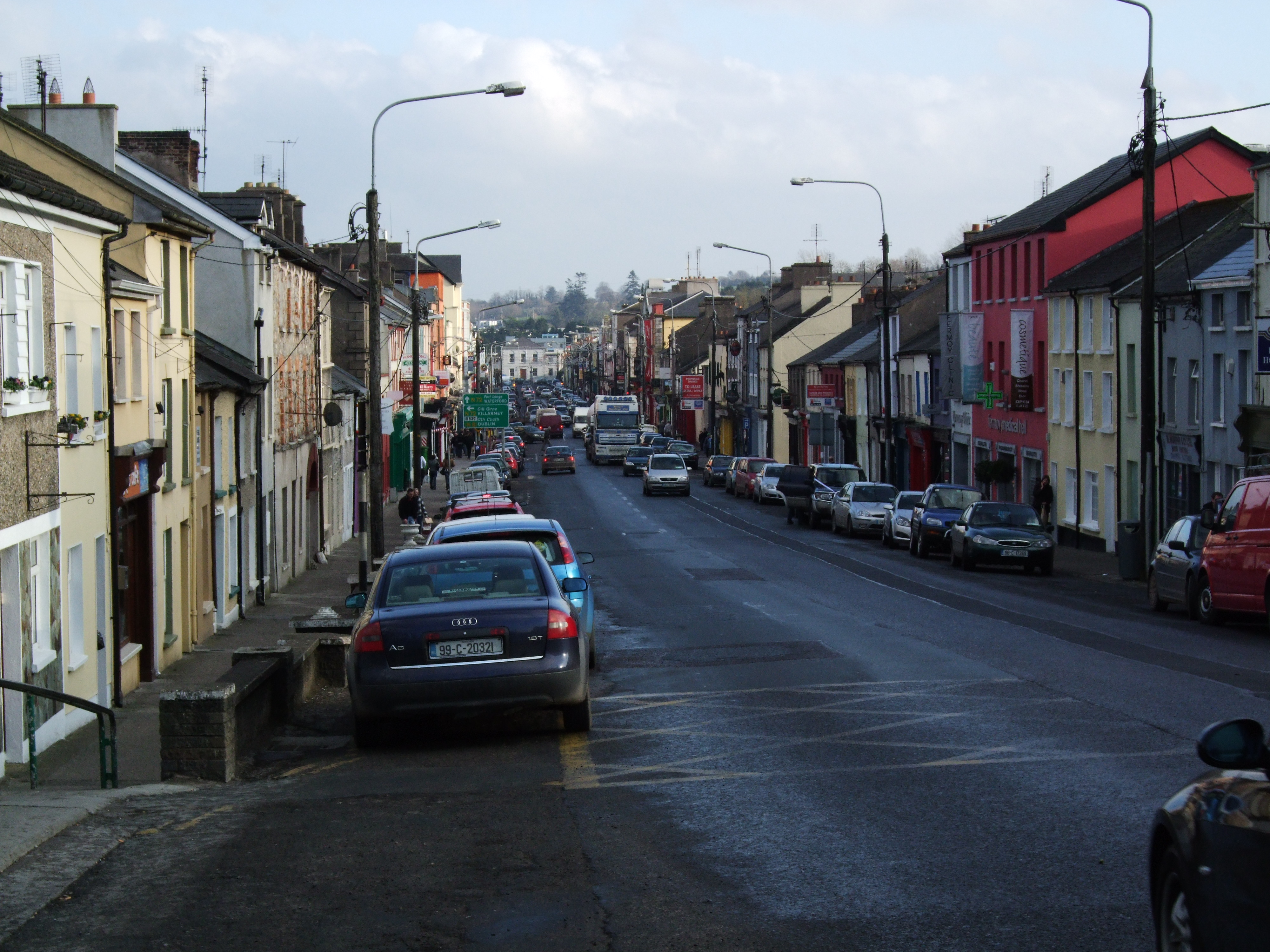 Fermoy main street.